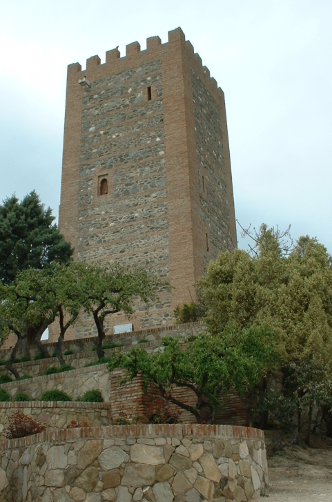 Tower of the castle (Fortaleza) at Vélez-Málaga, Spain.